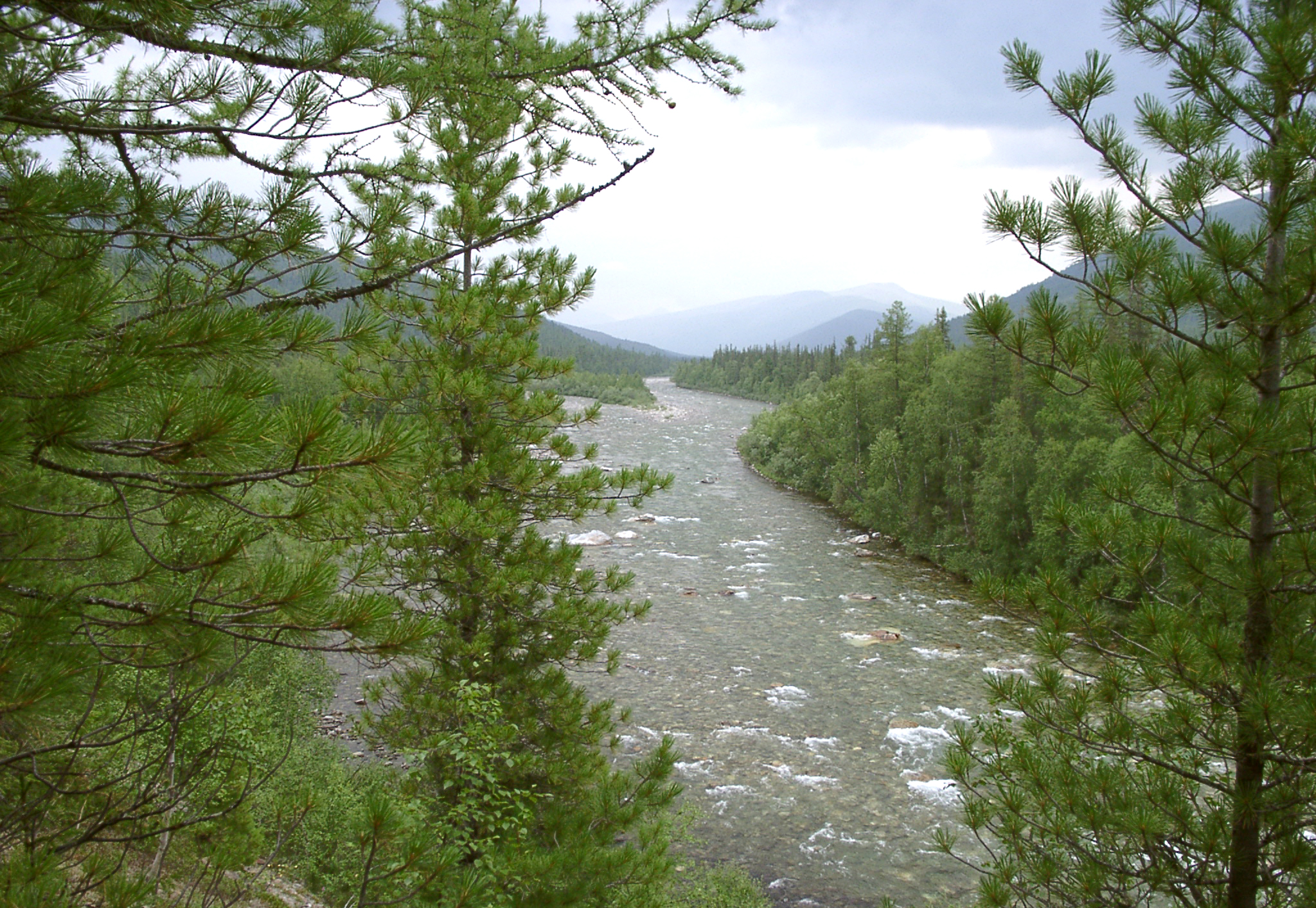 Pinus sibirica trees, also (top left) a Larix sibirica branch. Berezovsky, Khanty-Mansiyskiy Autonomous Okrug, 64°17'47"N 60°54'10"E